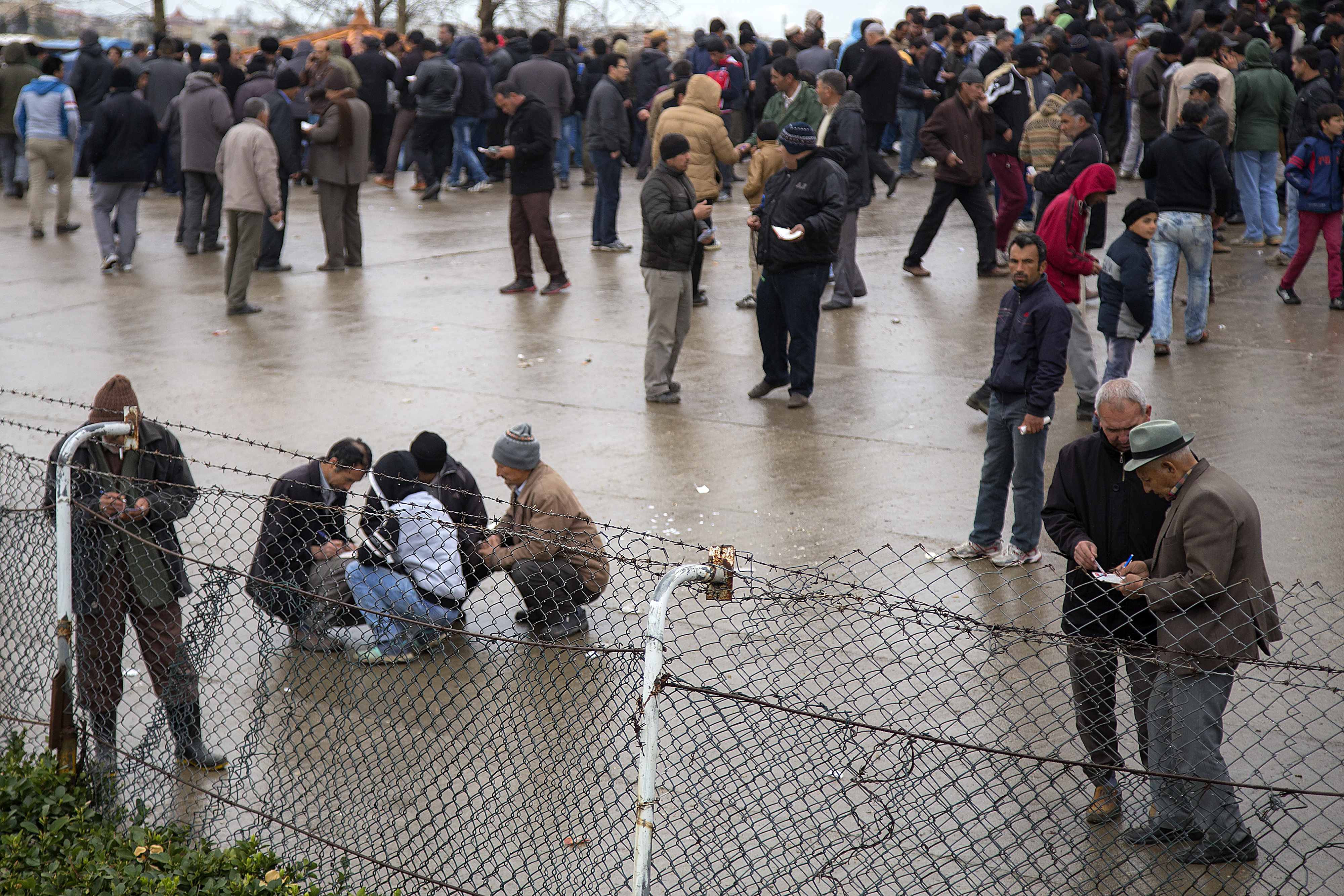 Horse racing is an equestrian performance sport, typically involving two or more horses ridden by jockeys or driven over a set distance for competition. It is one of the most ancient of all sports and its basic premise – to identify which of two or more horses is the fastest over a set course or distance – has remained unchanged since the earliest times.